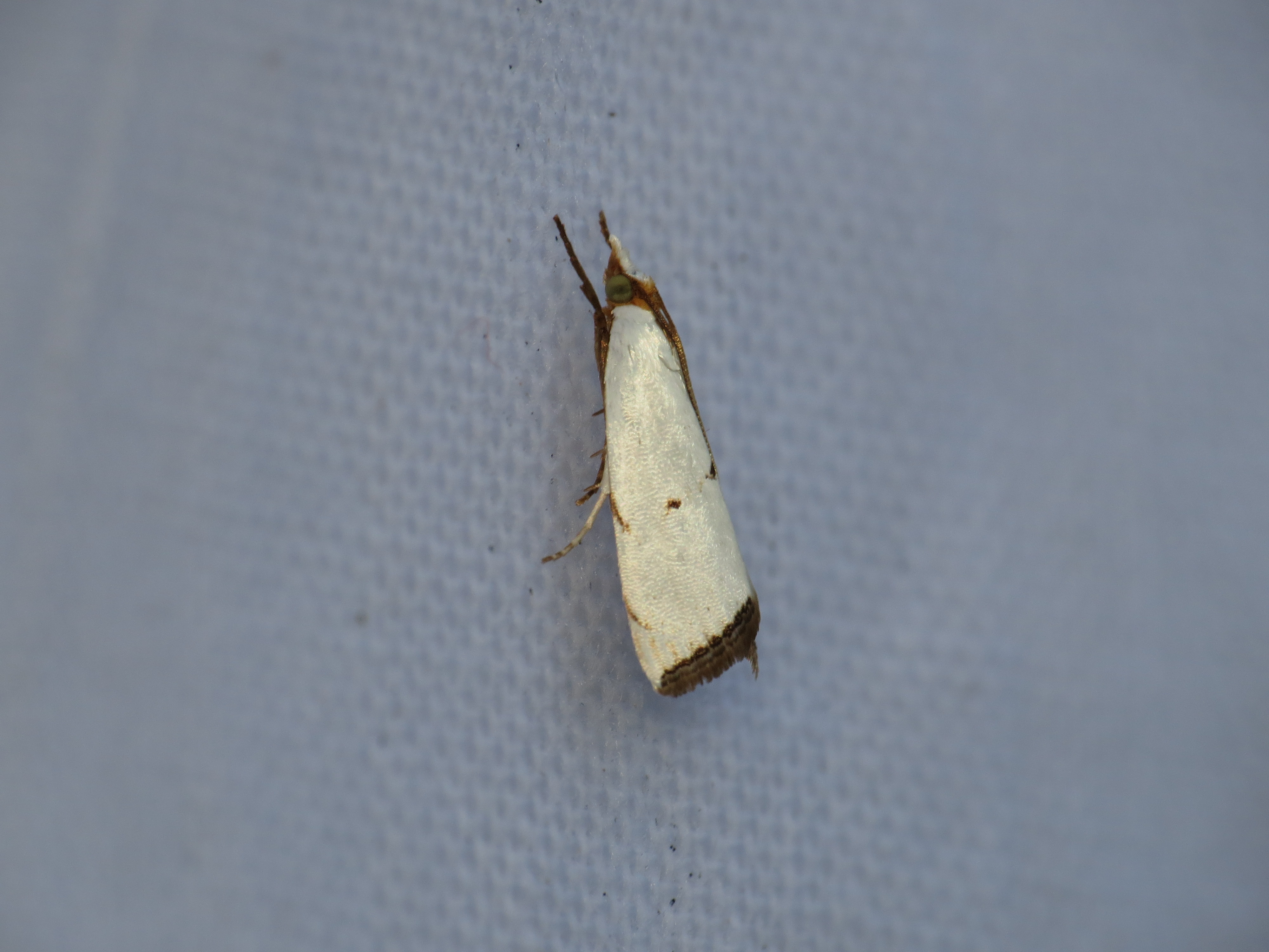 Argyria lacteella (Fabricius, 1794), to MV light, Kissimmee, Florida, 4/5 May 2015